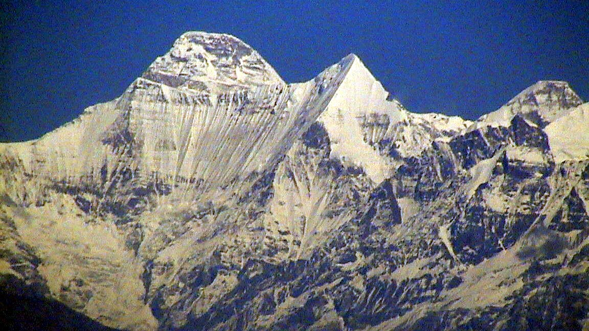 Nanda Devi from Kausani, levels adjusted